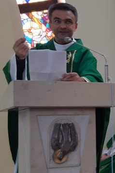 Dariusz Buras